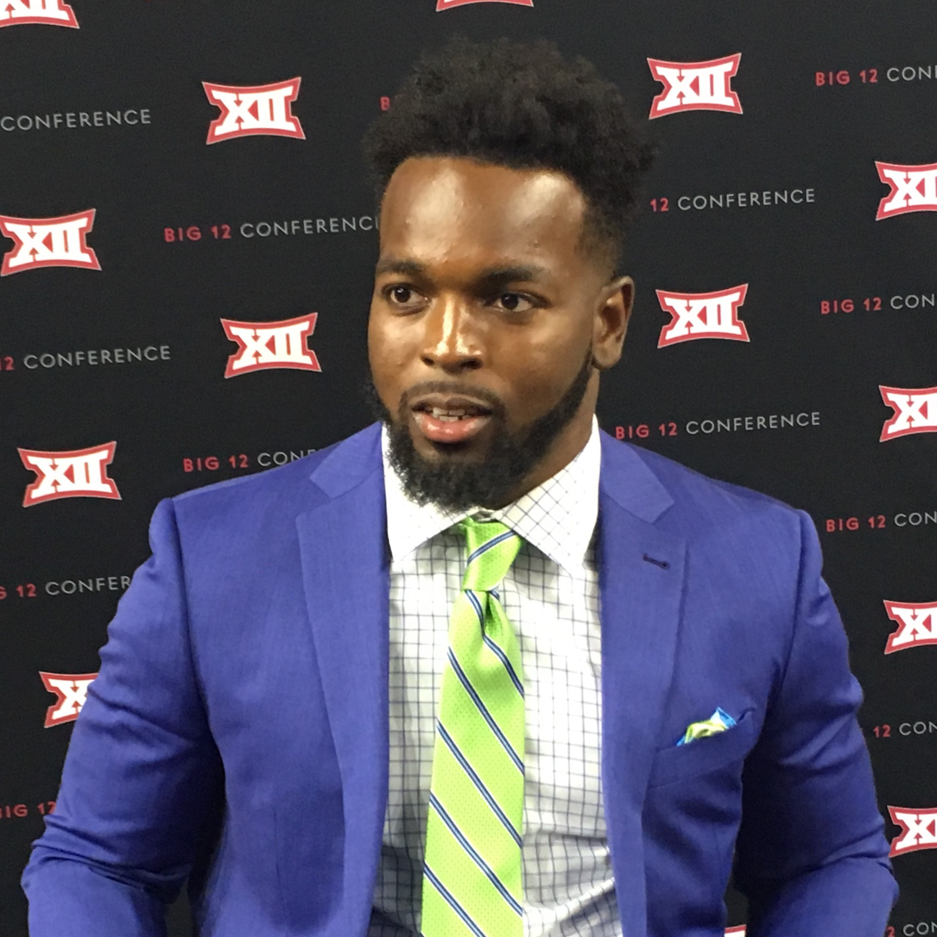 David Long Jr., linebacker for the West Virginia Mountaineers football team, at the 2018 Big 12 Conference Media Days in Frisco, Texas.